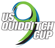 US Quidditch Cup 9 logo